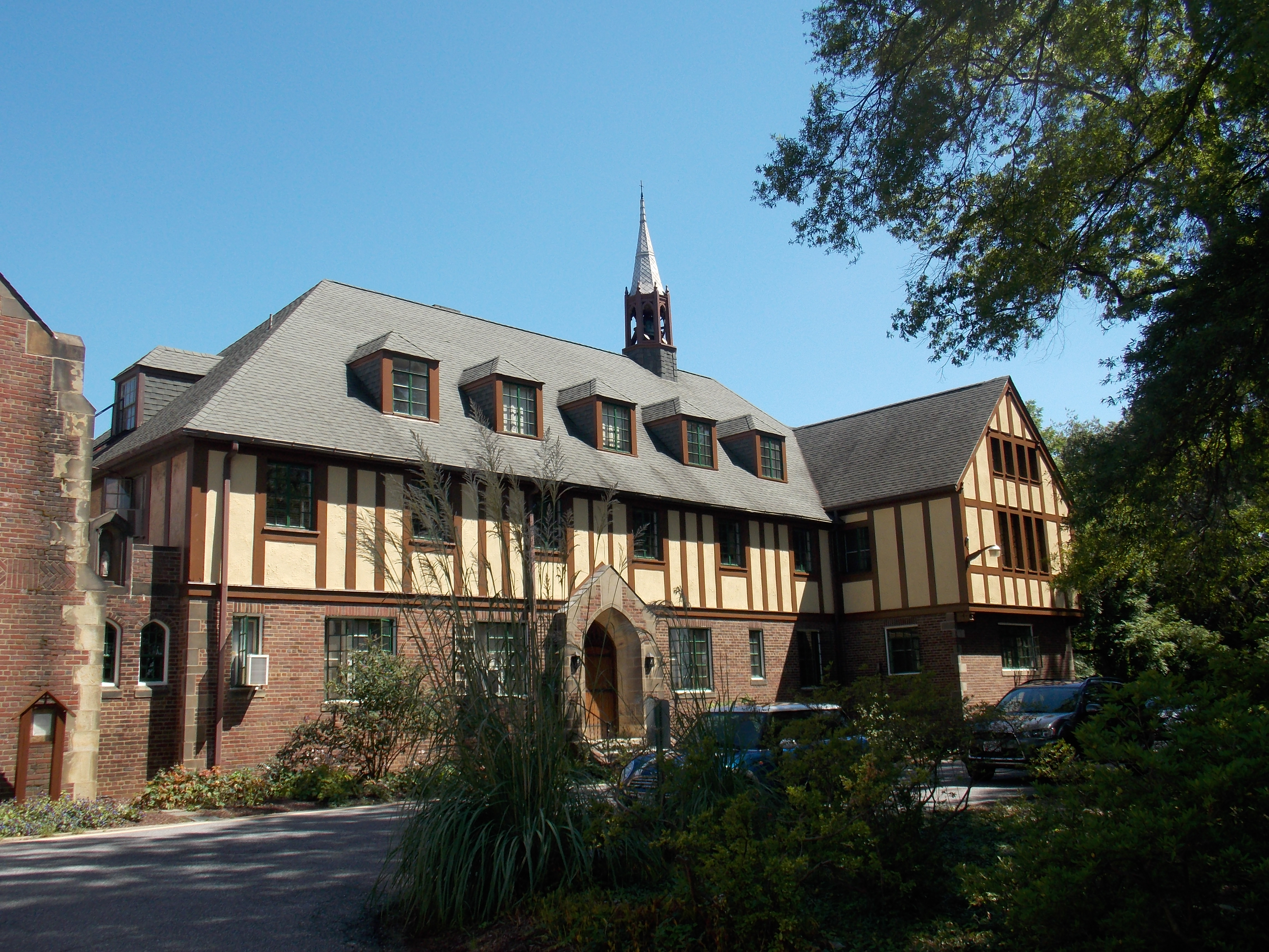 The original building at St. Anselm's Abbey in Northeast Washington, D.C.